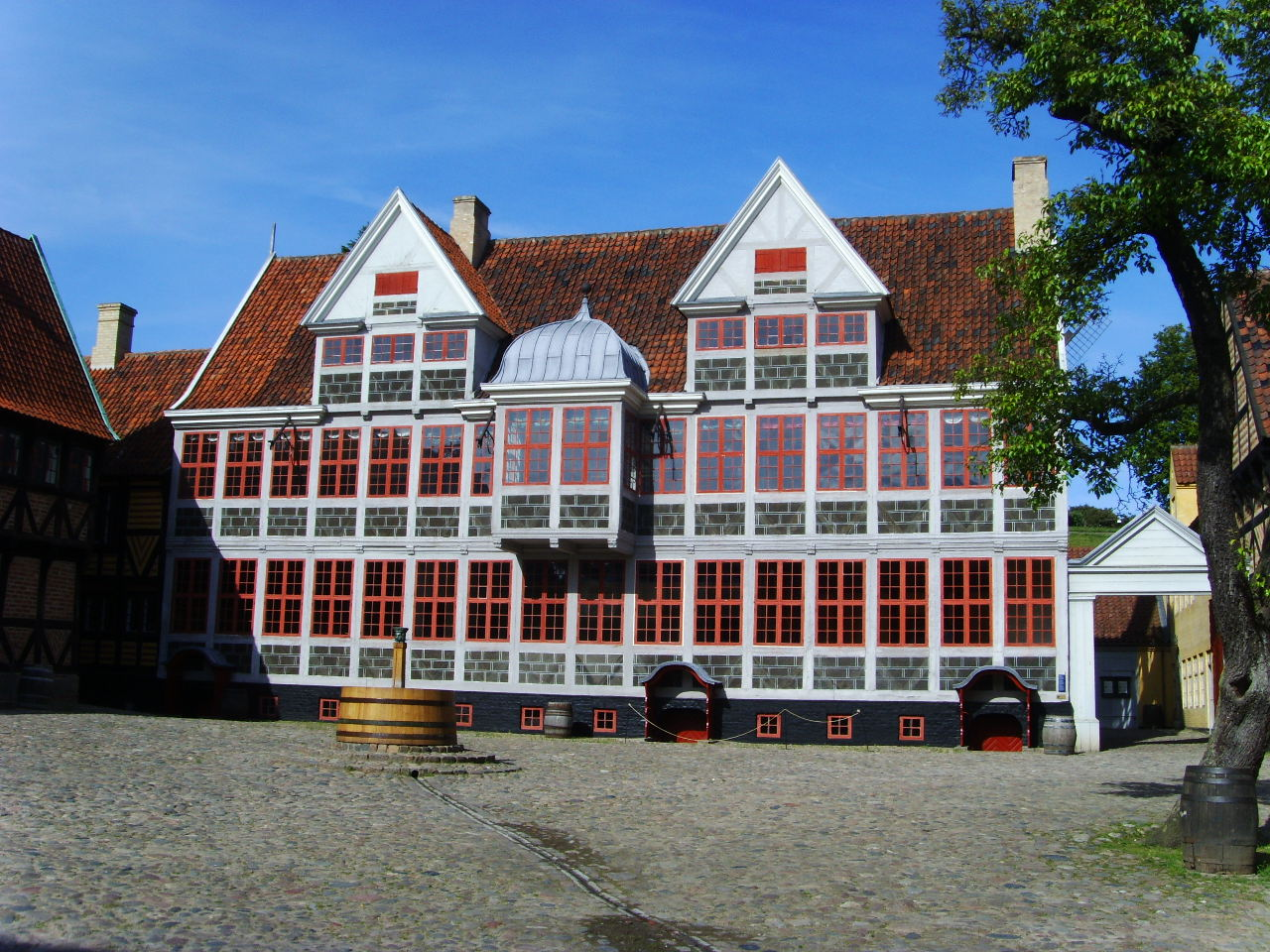 The Old Town, Århus, Denmark.